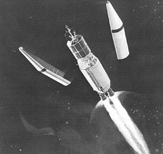 During the flight of a Centaur Stage with an Intelsat IV satellite on top the payload fairing is jettisoned. Während die Centaur Oberstufe beschleunigt, wird die Nutzlastverkleidung abgeworfen, die einen Intelsat IV Satelliten umhüllt hat.